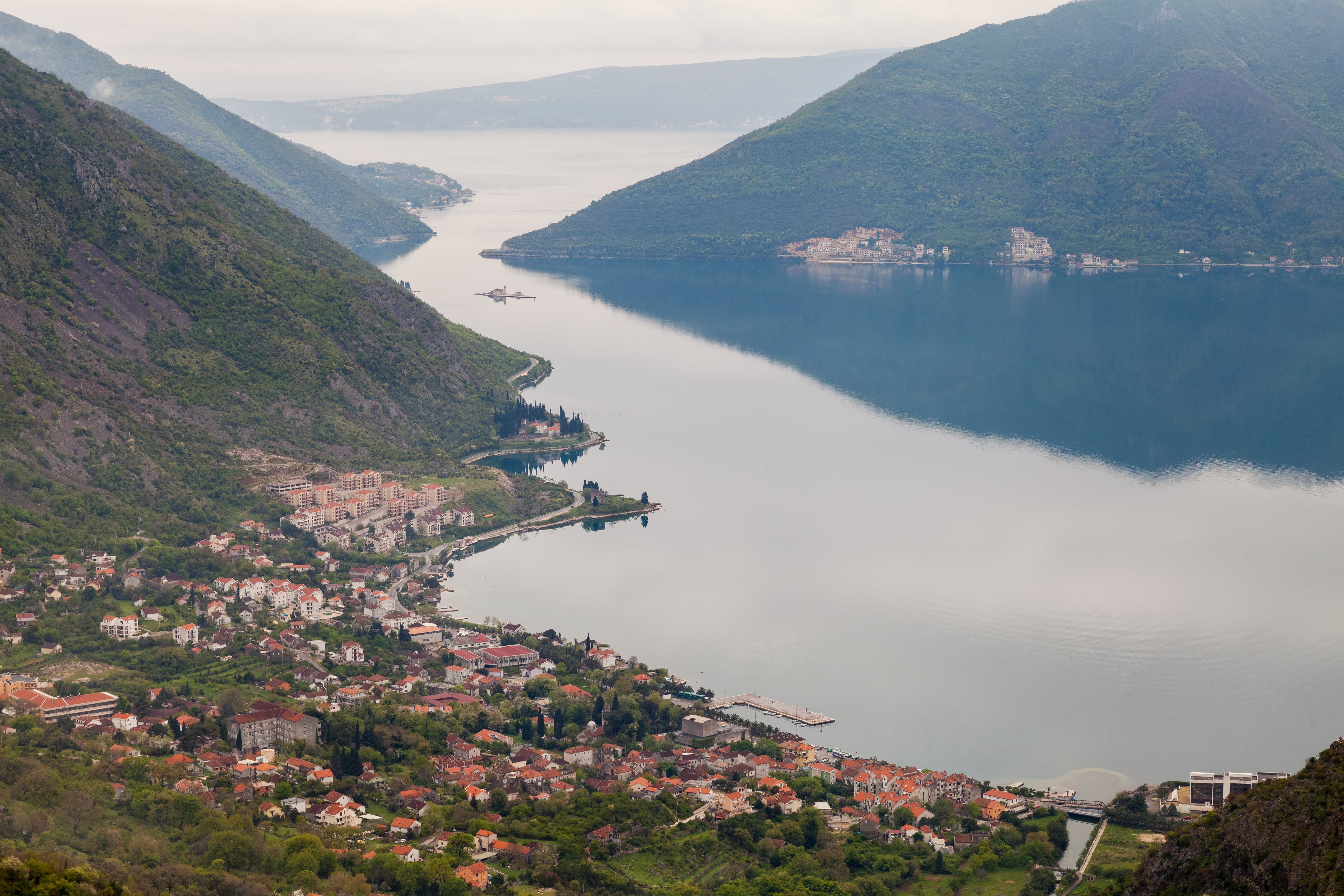 Risan, Bay of Kotor, Montenegro